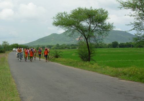 The image is photographed by me and it is free to use by anyone in its present form-Subhajit